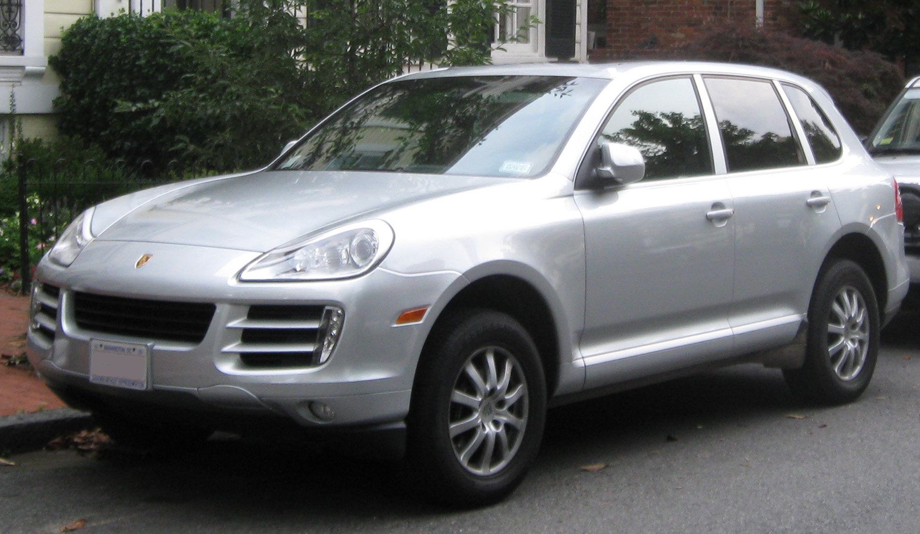 2009 Porsche Cayenne photographed in Washington, D.C., USA.